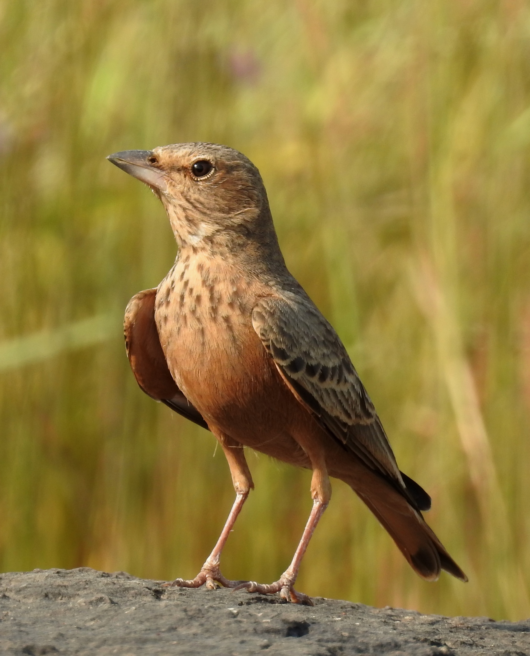 Rufous-tailed Lark Ammomanes phoenicura. Image by Dr. Raju Kasambe Location: Near Dombivli, dist. Thane, Maharashtra.